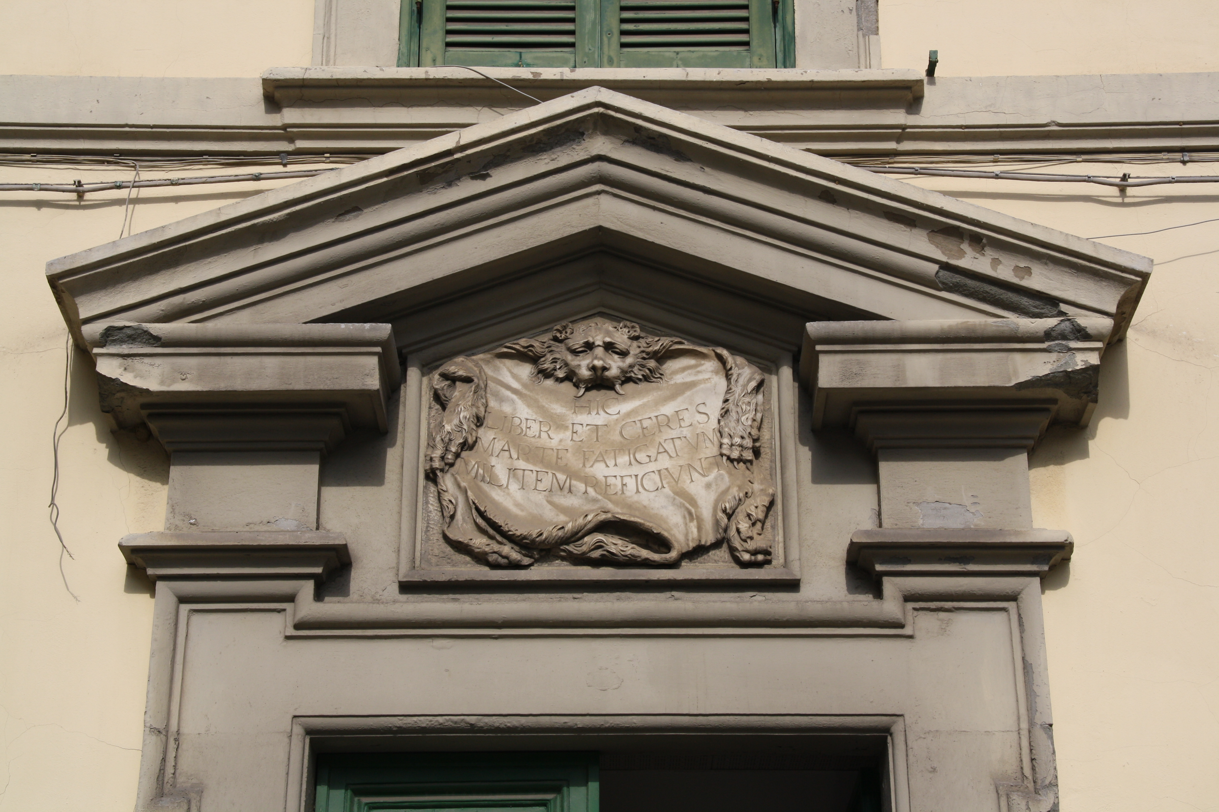 Italy, Livorno, Piazza Guerrazzi. Palazzo del Picchetto southward side, detail of architrave.